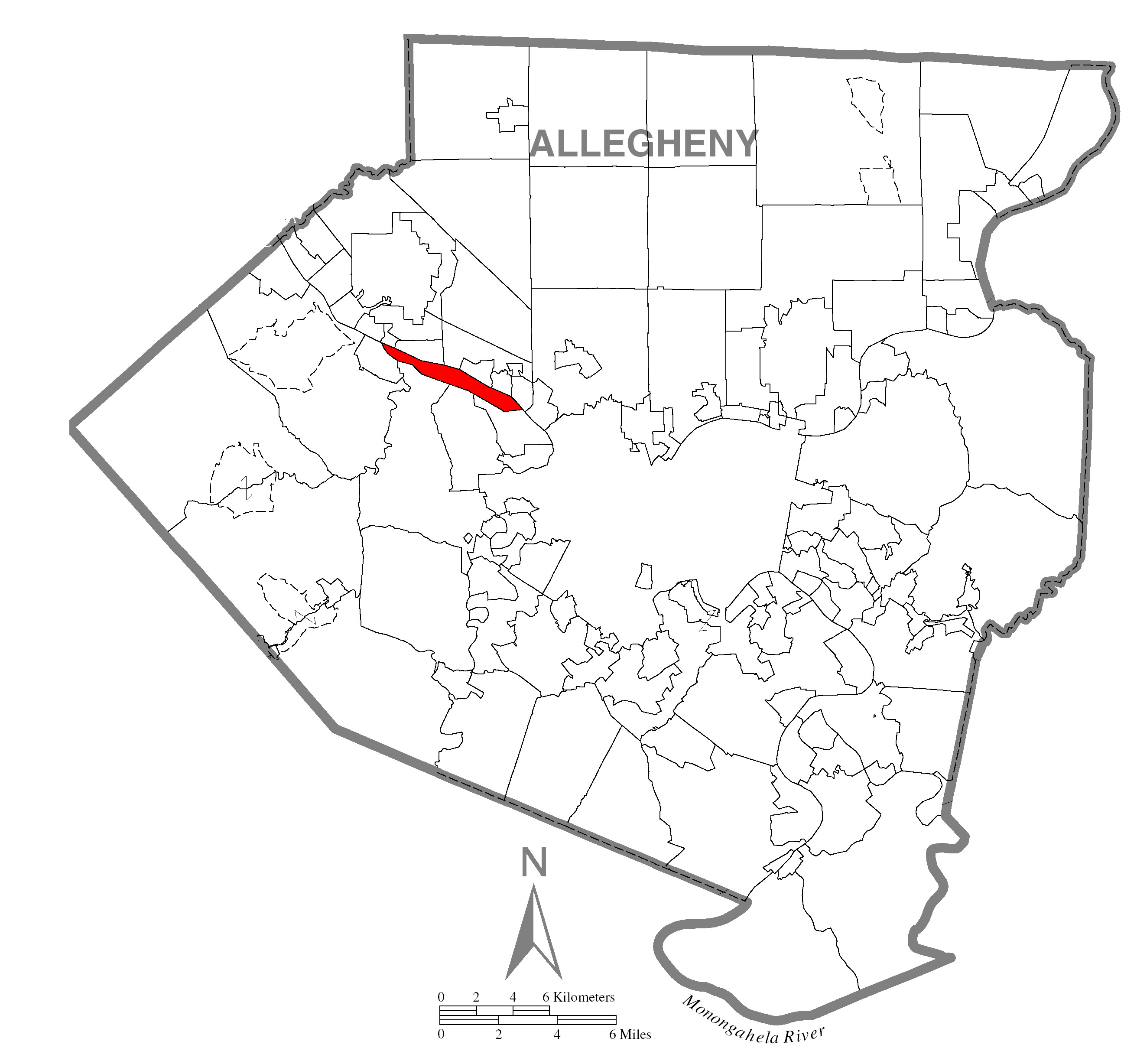 A map of Allegheny County showing Neville Township, Pennsylvania (alternate) highlighted on the map.